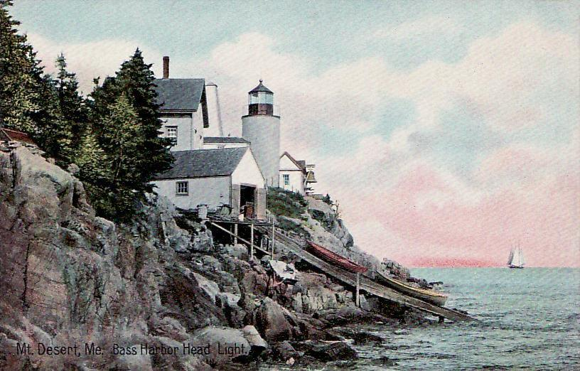 Bass Harbor Head Lighthouse, Tremont, Mount Desert Island, Maine